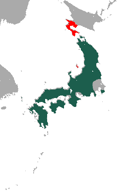 Japanese Marten (Martes melampus) range (green - native, red - introduced)